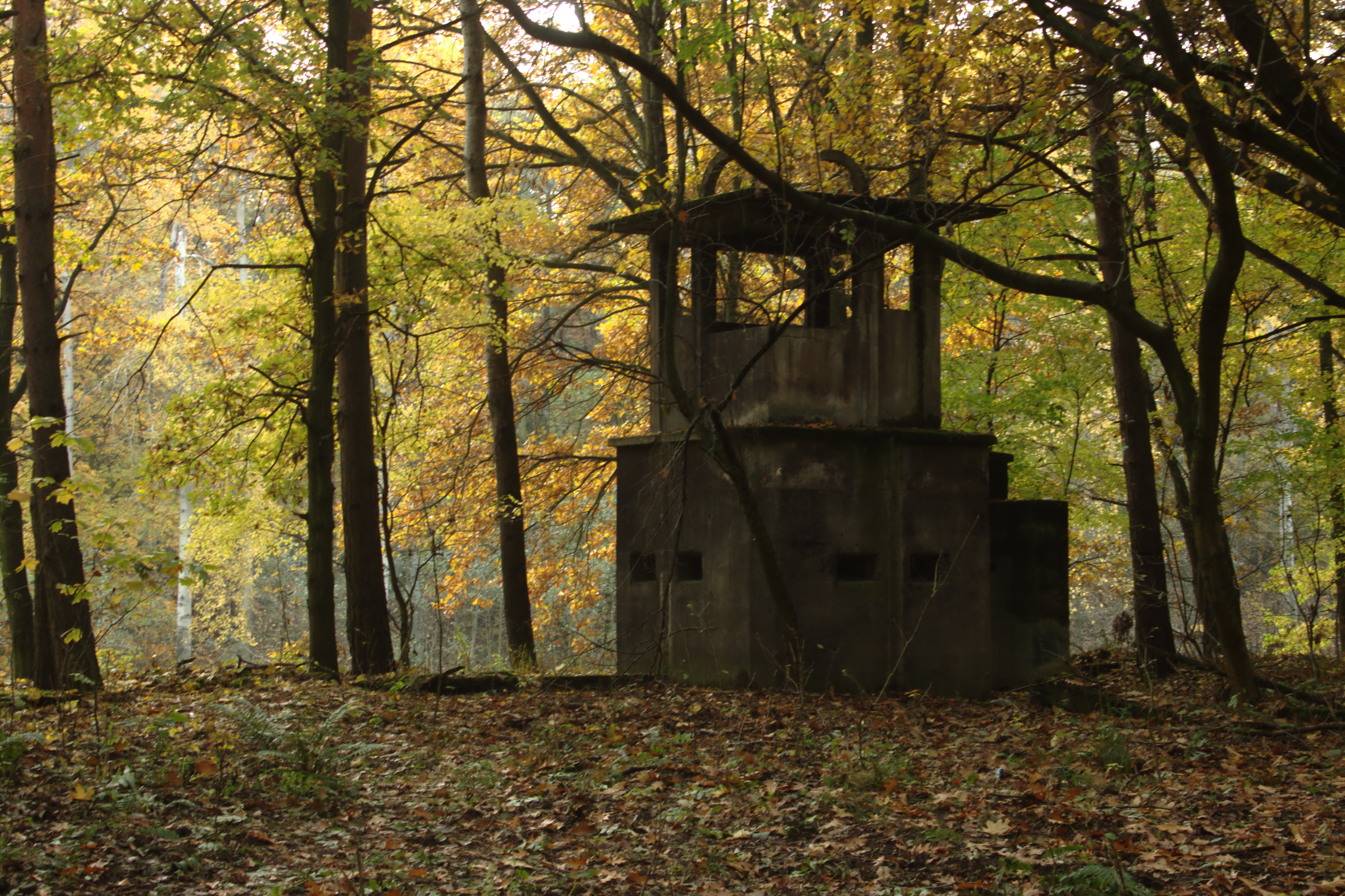 Former part of the Nazi area Blechhammer, Kędzierzyn-Koźle, Poland.